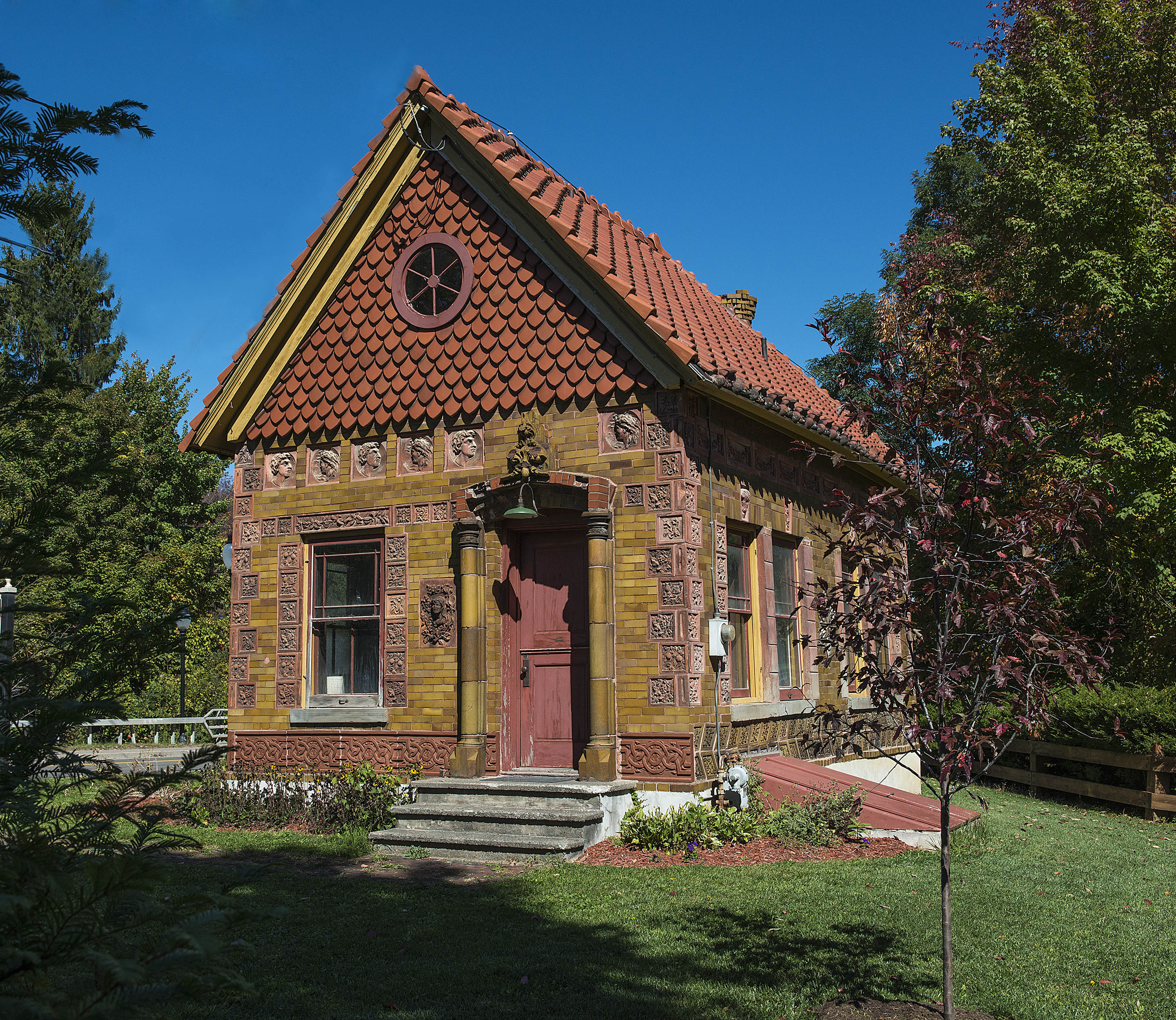 Terra Cotta Building